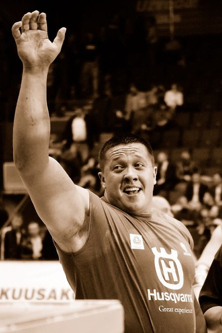 Mikhail Koklyaev - a strength athlete from Russia.